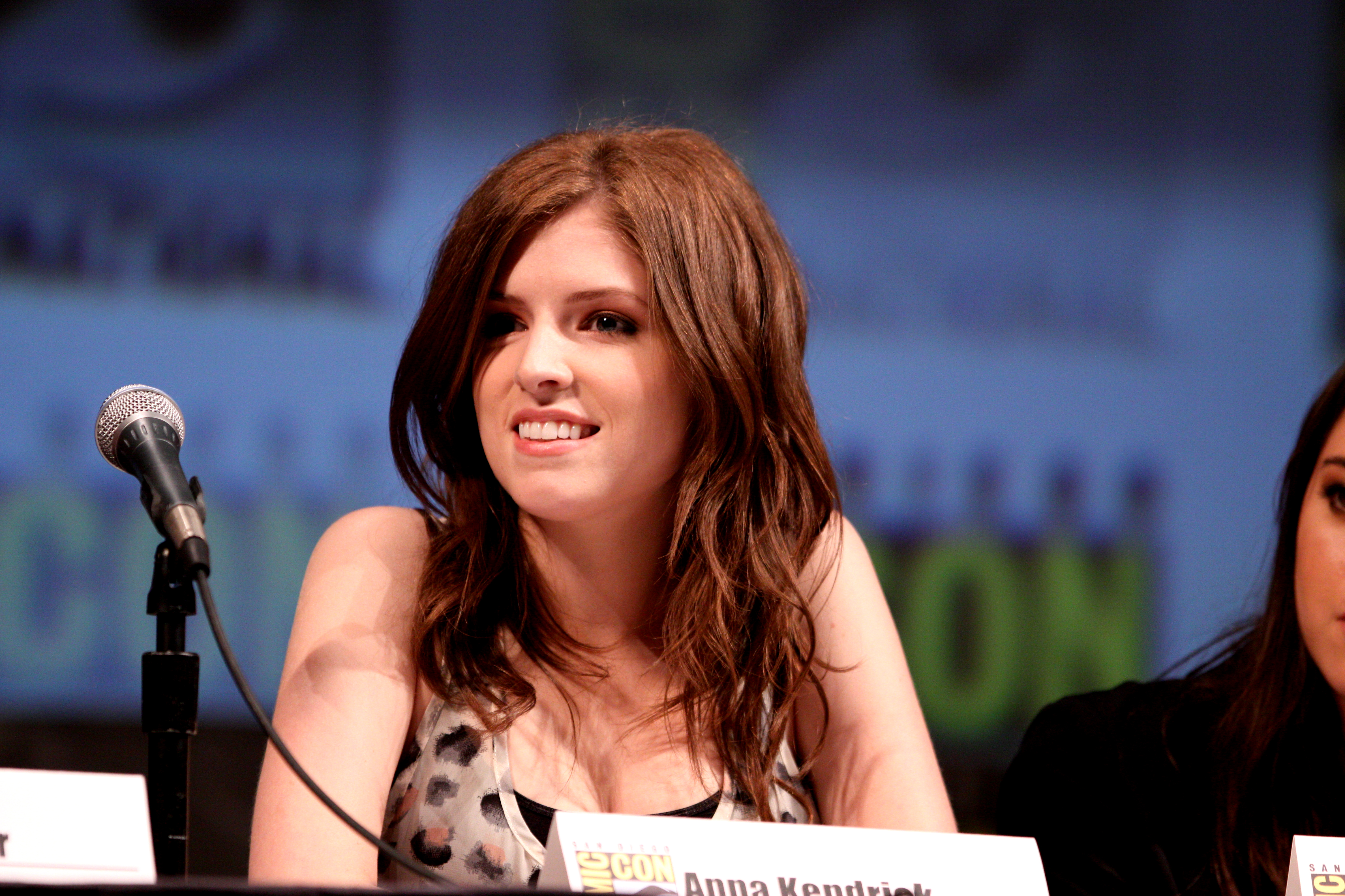 Actress Anna Kendrick on the Scott Pilgrim vs. the World panel at the 2010 San Diego Comic Con in San Diego, California.